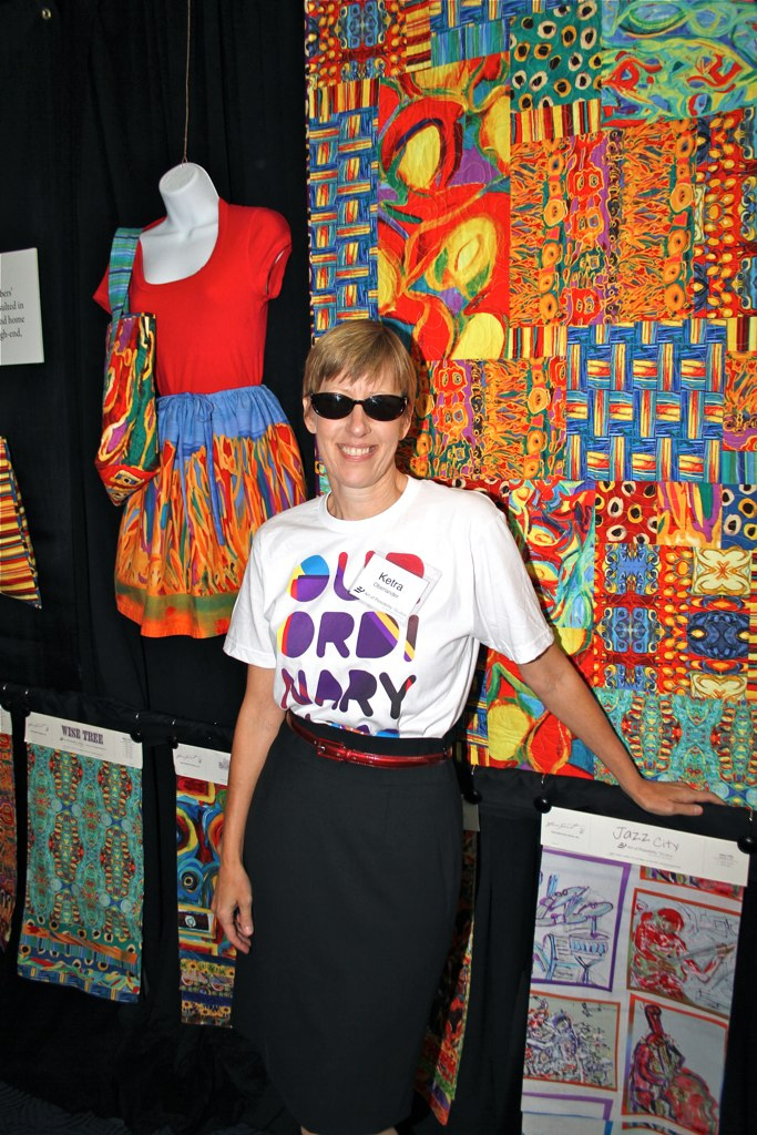 Artist Ketra Oberlander, at Yahoo! Independence 2011, in front of a display of Art of Possibility designs